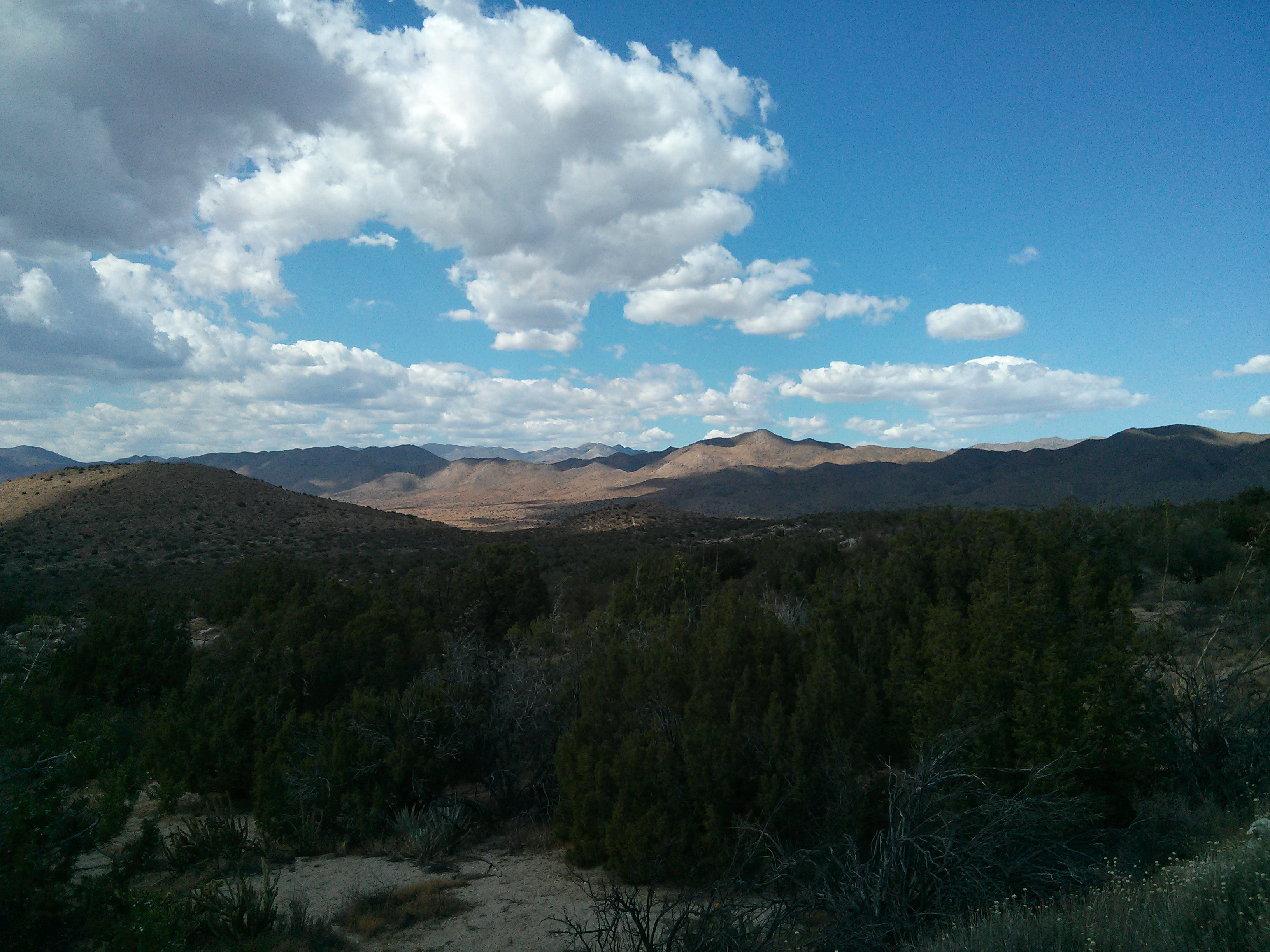 The San Felipe valley as seen from California State Highway 78 East of Julian, May 10th 2013